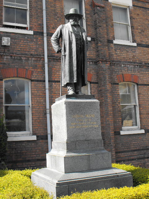 Statue of Ludwig Mond Ludwig Mond 1839-1909